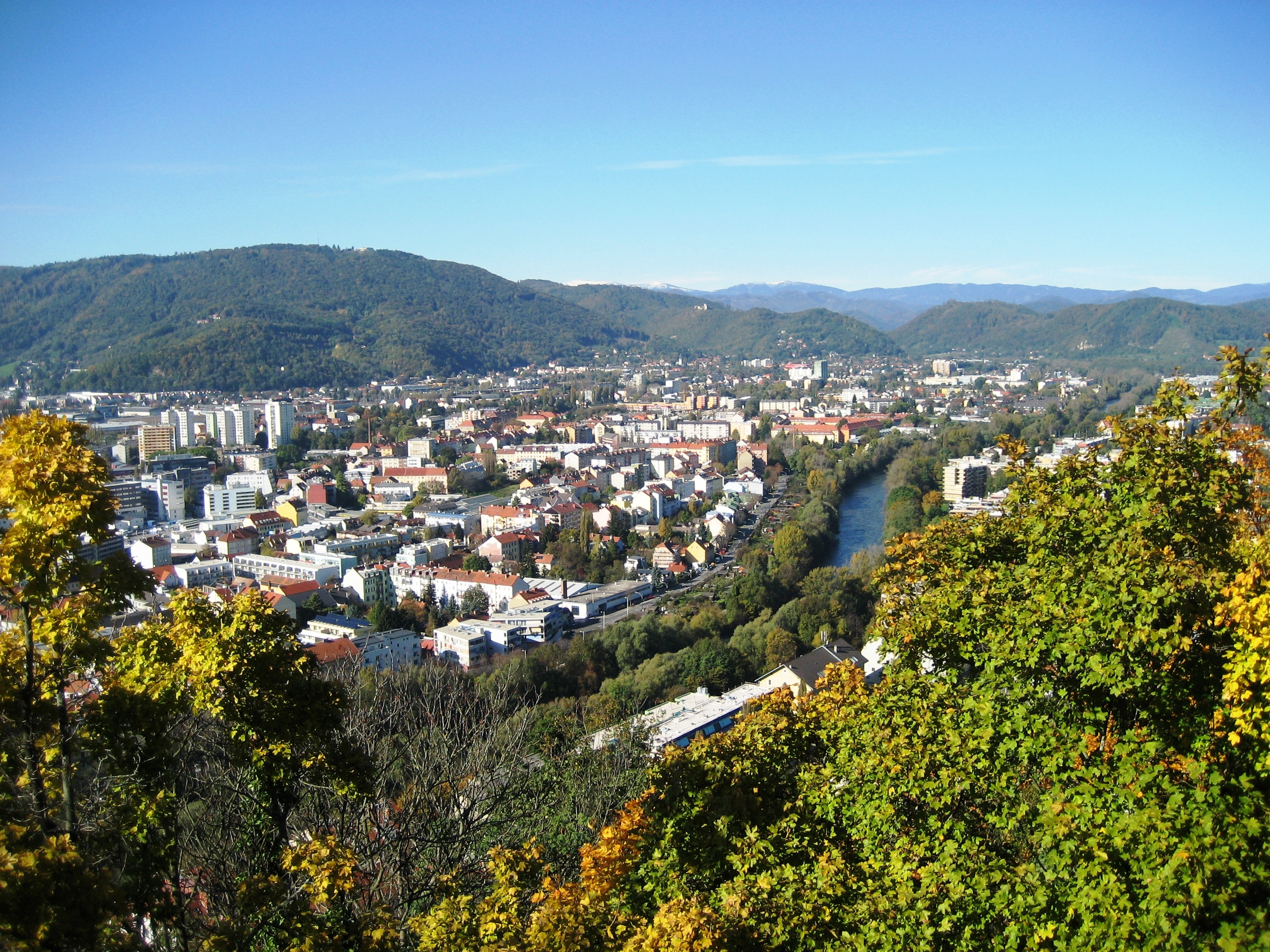 Graz, Austria. View ftom Schloßberg in diection north: Left: Mountain Plabutsch, then Ruinenberg.